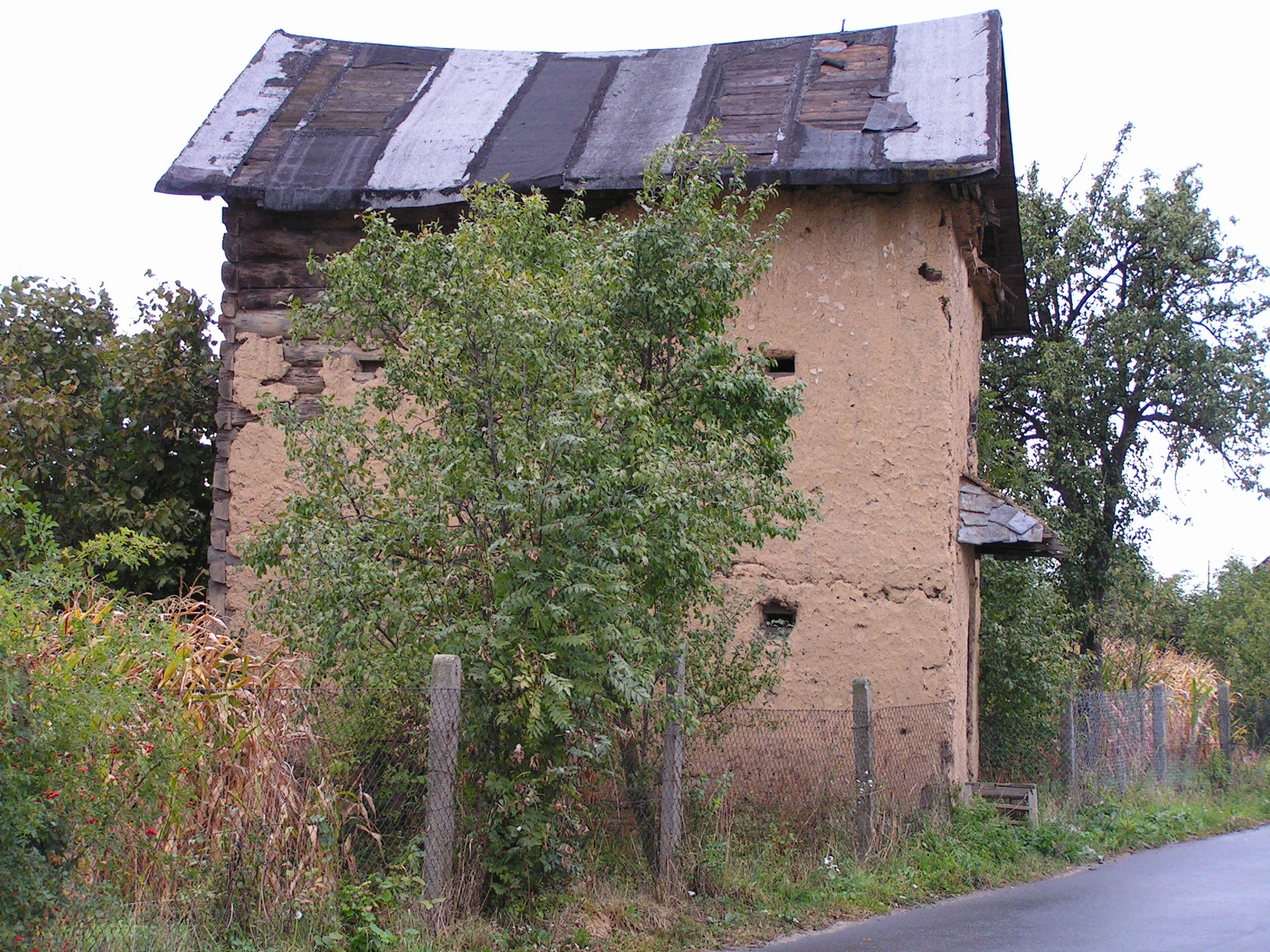 Sideview of last remaining 'Laimes' in Rozumice (formerly Rösnitz)